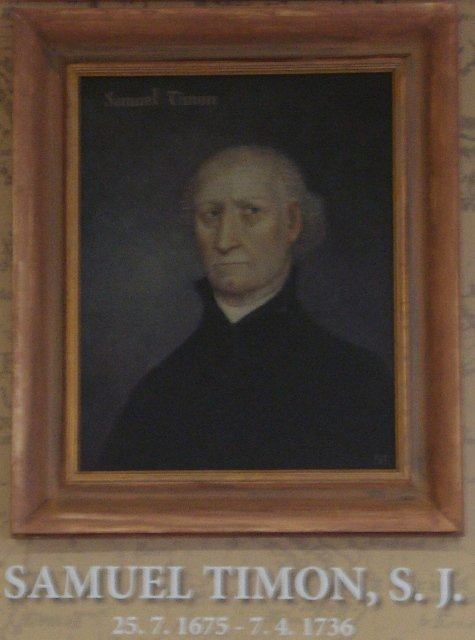 Samuel Timon (1675-1736)